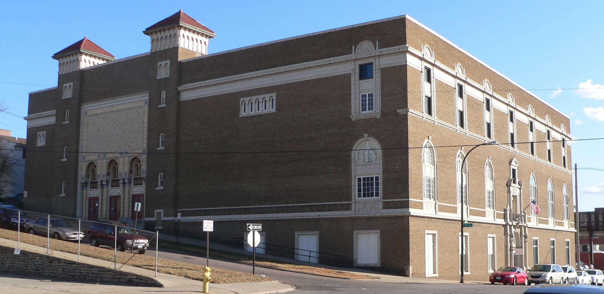 Sioux City Masonic Temple, located at 820 Nebraska Street in Sioux City, Iowa; seen from the northwest.